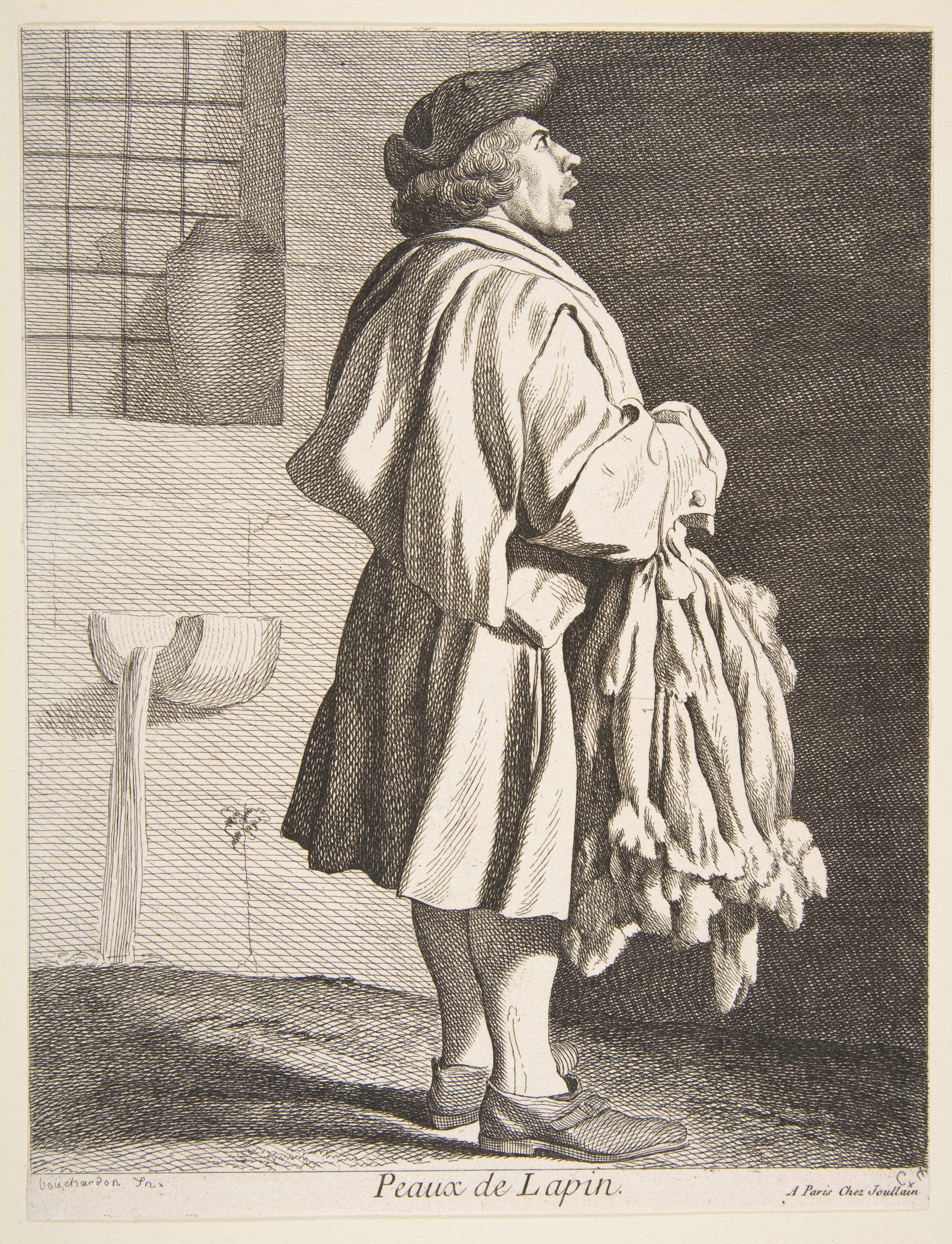 Print; Prints